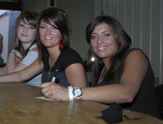 BarlowGirl